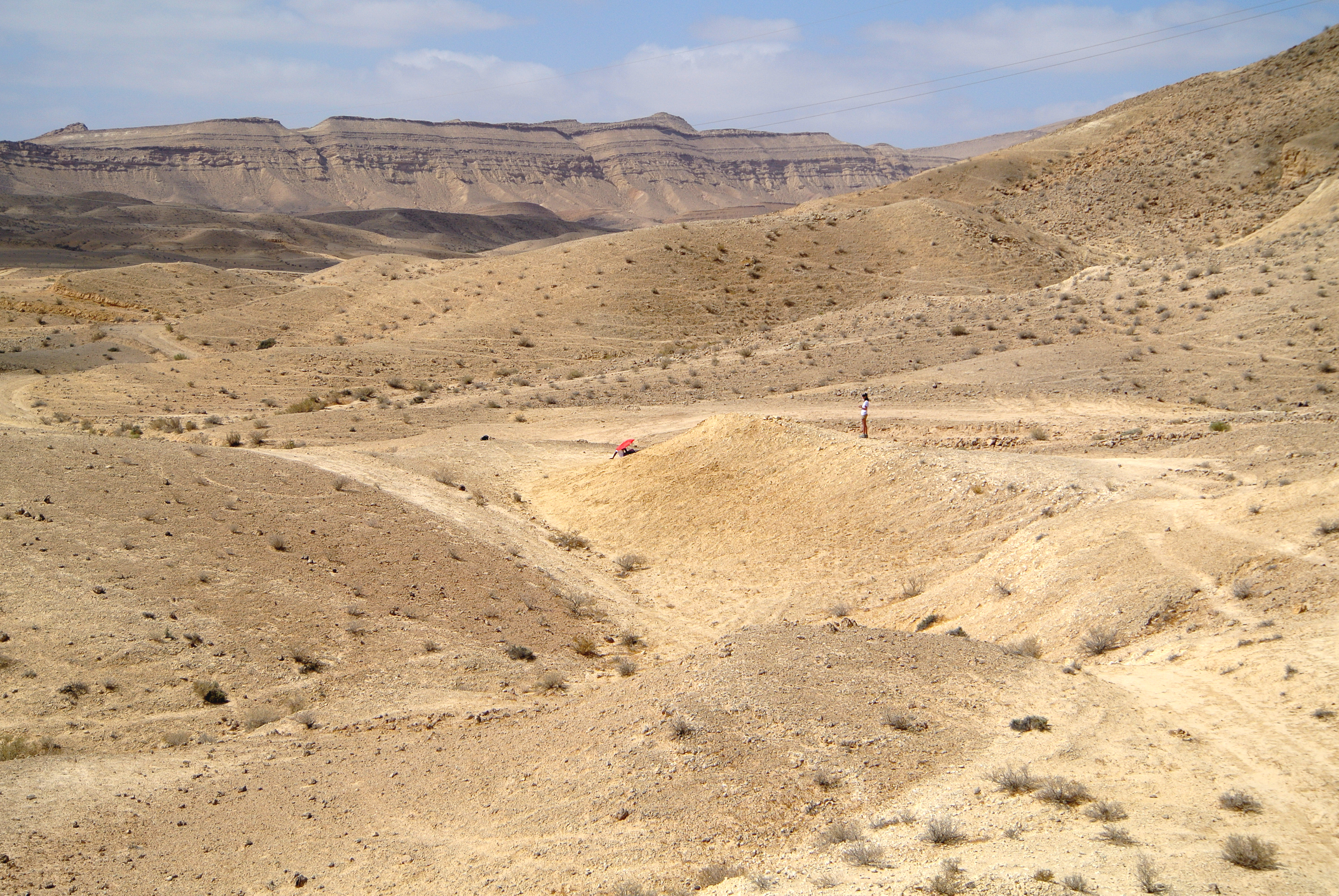 Matmor Formation (Jurassic) exposed in Makhtesh Gadol, southern Israel. Southern wall of the makhtesh in the background.